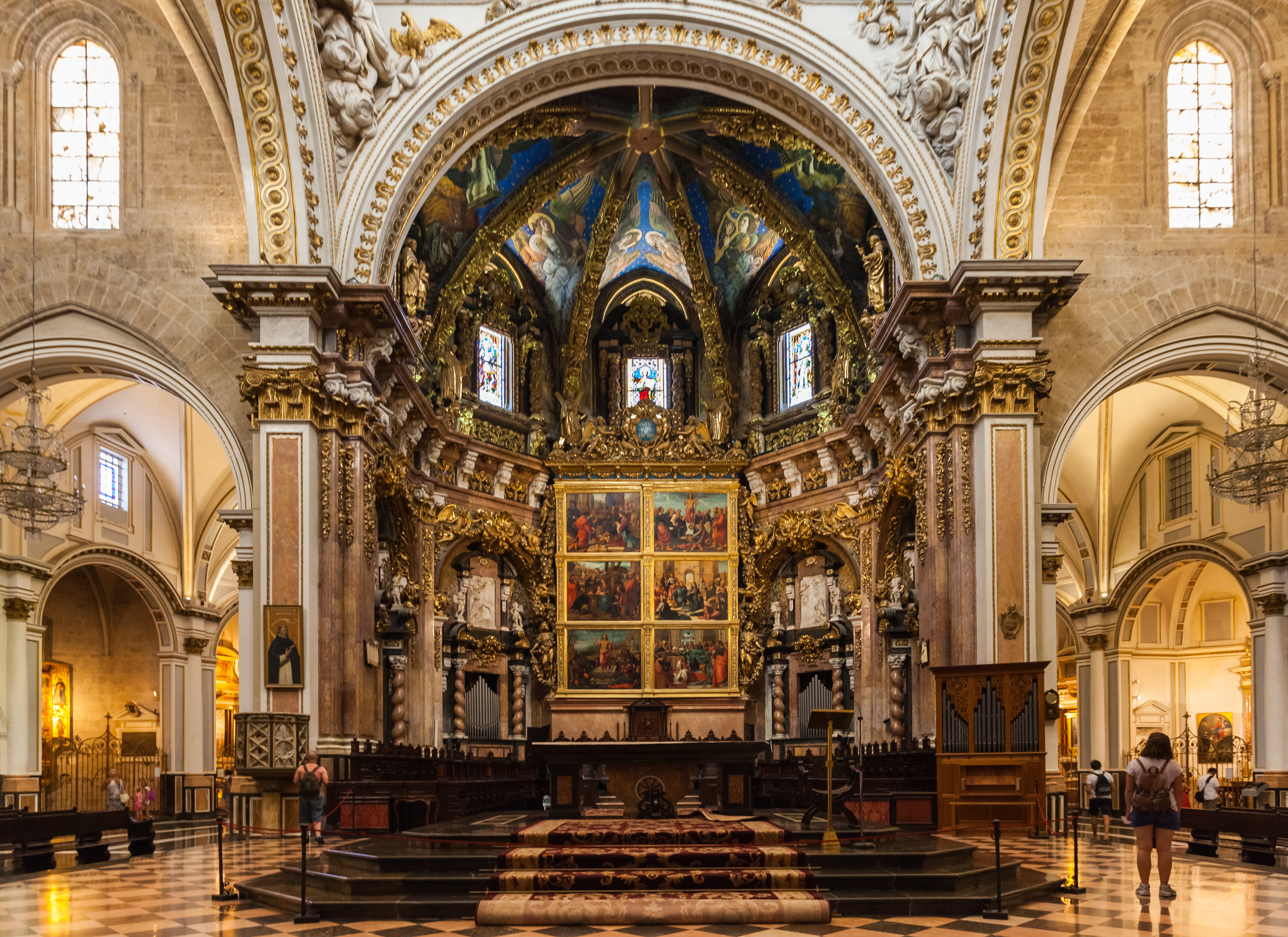 Main Chapel, Valencia Cathedral, Valencia, Spain